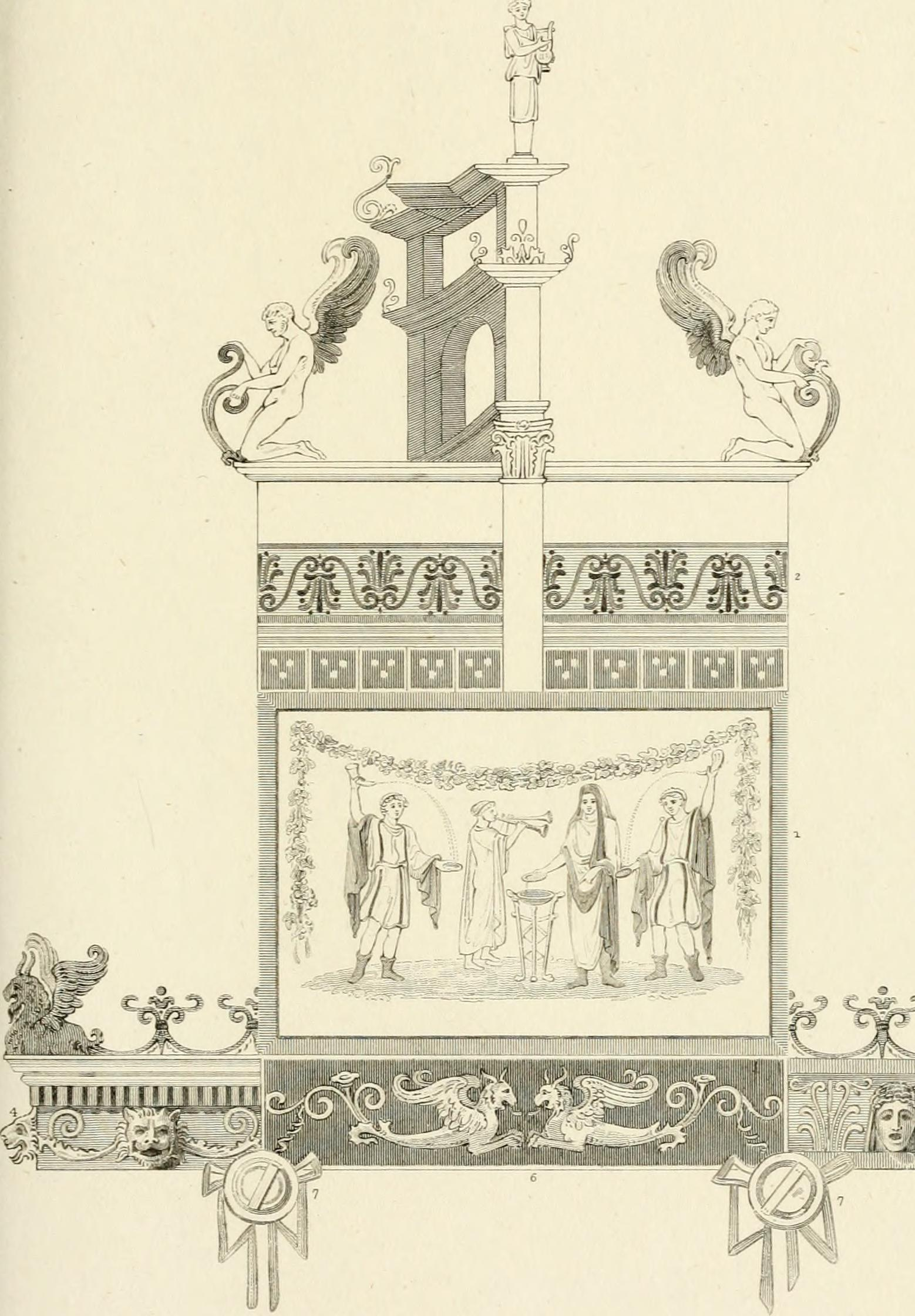 "Pompeii - Painting tiles and ornaments in the House of Actaeon". Title: Pompeiana : the topography, edifices, and ornaments of Pompeii Year: 1817 (1810s) Authors: Gell, William, Sir, 1777-1836 Gandy, John P. (John Peter), 1787-1850 Lewis, Frederick Christian, 1779-1856 Hobsen, H Wallis, Robert, 1794-1878 Hollis, George, 1793-1842 Lizars, W. H. (William Home), 1788-1859 Le Keux, John Henry, 1812-1896 Moses, Henry, 1782?-1870 Cooke, George, 1781-1834 Shury, James Rawle, S Wise, W Porter, S Walker, John, 1759-1830 Pye, John, 1782-1874 Goodall, Edward, 1795-1870 Heath, Charles, 1785-1848 Subjects: Architecture, Roman -- Italy Pompeii (Extinct city) Pompeii (Extinct city) Pompeii (Extinct city) -- Buildings, structures, etc Pompeii (Extinct city) -- Maps Publisher: London : Printed for Rodwell and Martin Text Appearing Before Image: w m 4» *»b ^i^ .fj» 4* .to .«/ ^V *«• »»^^^%%-%^% ly HcnrsE OF ACT/i-:uN. sidp. of a room. Publislied Oct:i.)817,ty MeiyRodwell fc Mariin New Kon.1 Street Text Appearing After Image: EiigravBd ty Cha.* tfeaih.. PAINTrNG TILES AND ORNAMENTS IN THE HOUSE OE ACTAEON Pabli&heil DecTl.lSn.bv MelSRadwell JjMaitm.NewBoud Street.